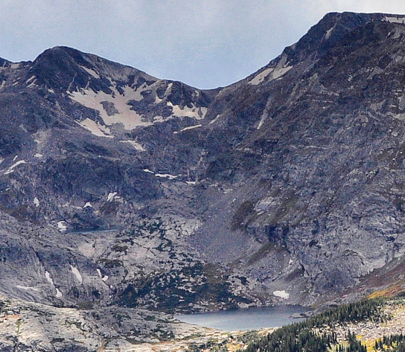 lake azure in colora